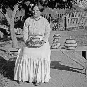 Elizabeth Hickox in California in 1913 with her lidded baskets.